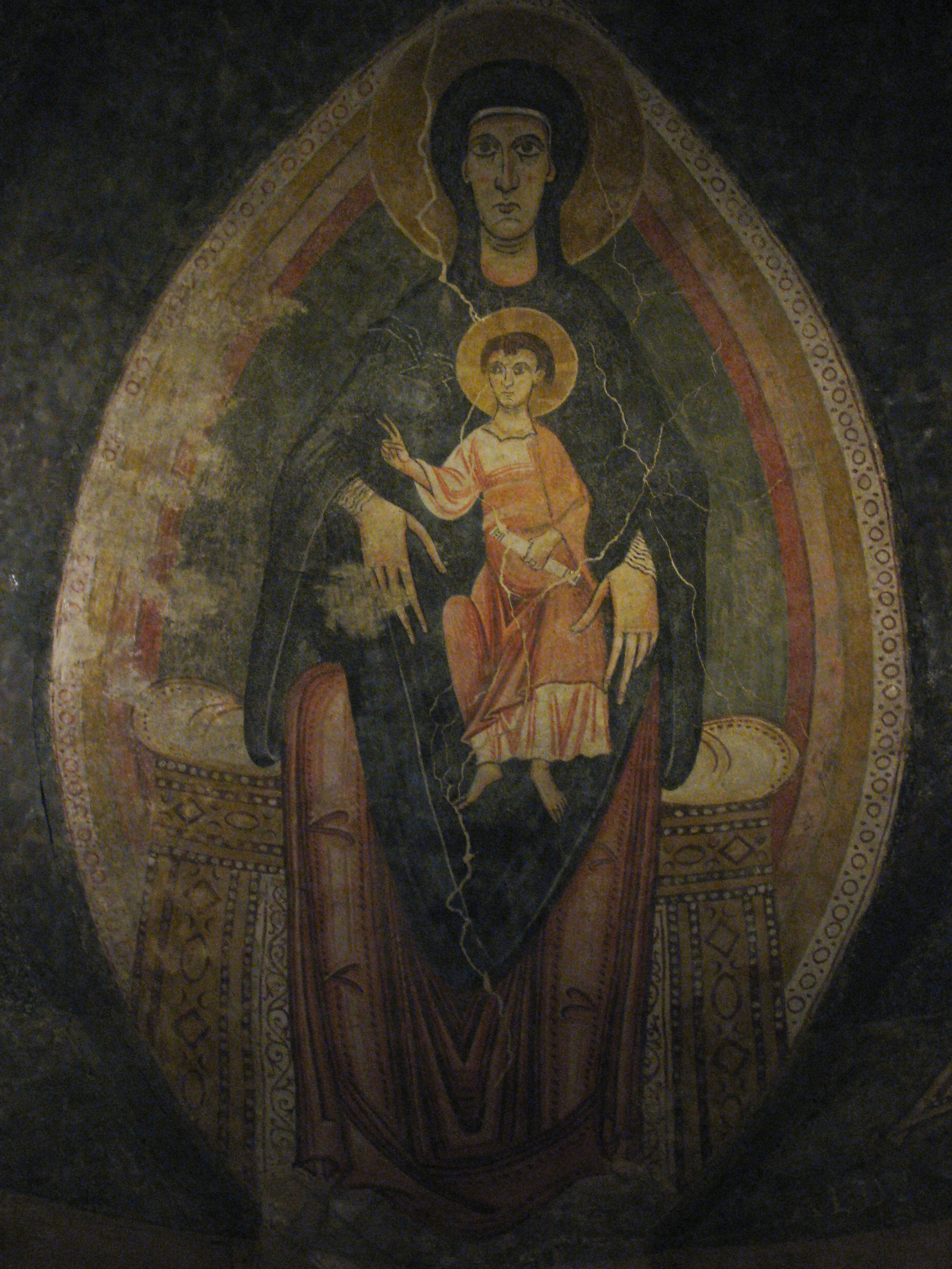 Crucifix, Spain, ca. 1150-1200; Virgin and Child in Majesty, Master of Pedret Catalunya, ca. 1100